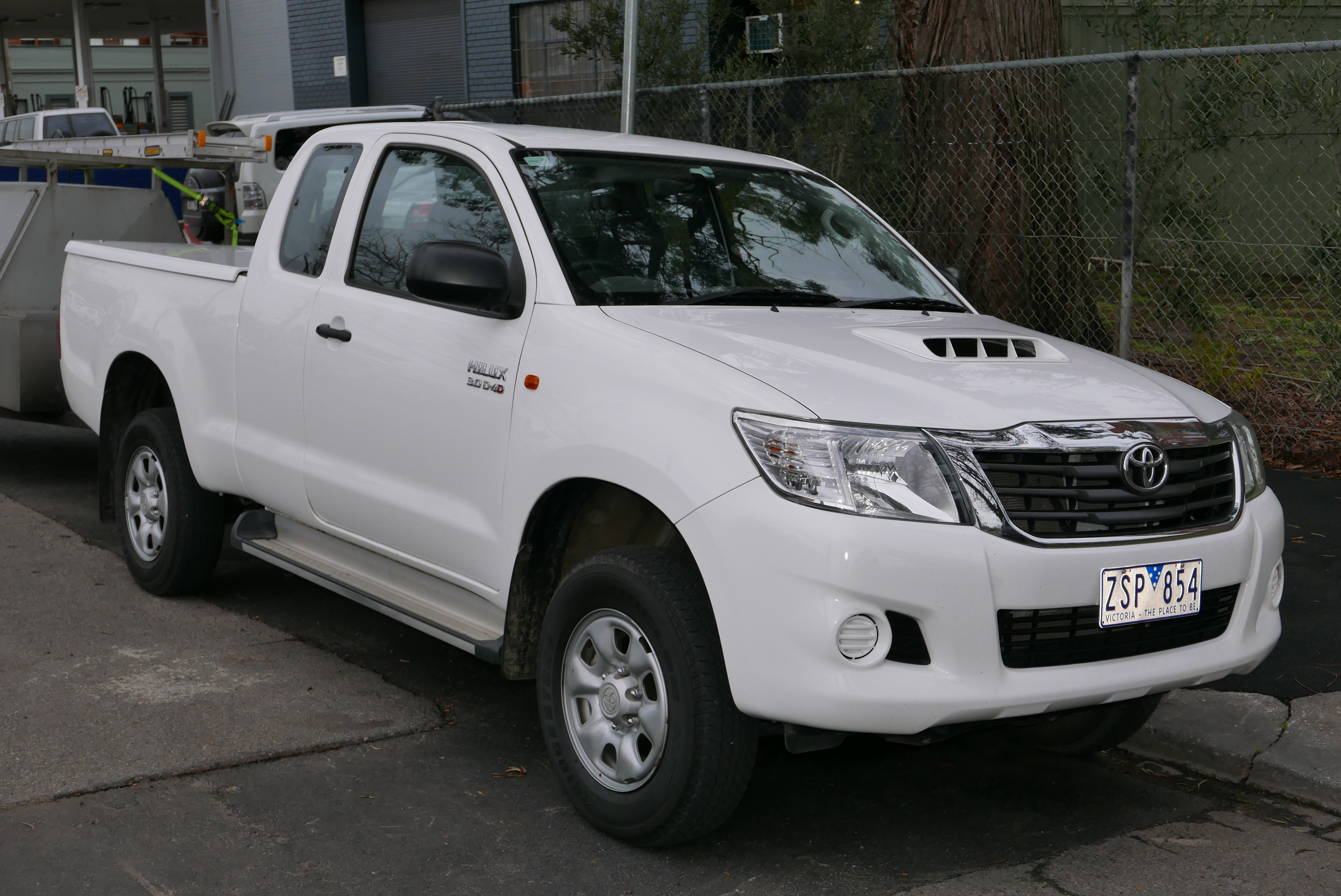 2012 Toyota HiLux (KUN26R MY12) SR Xtra Cab 2-door utility. Photographed in Fitzroy North, Victoria, Australia. Vehicle registration enquiry resultsJurisdictionVictoriaRegistrationZSP854Chassis codeMR0HZ22G503515381Engine code1KD5916293Compliance date2012-10Year of manufacture2012